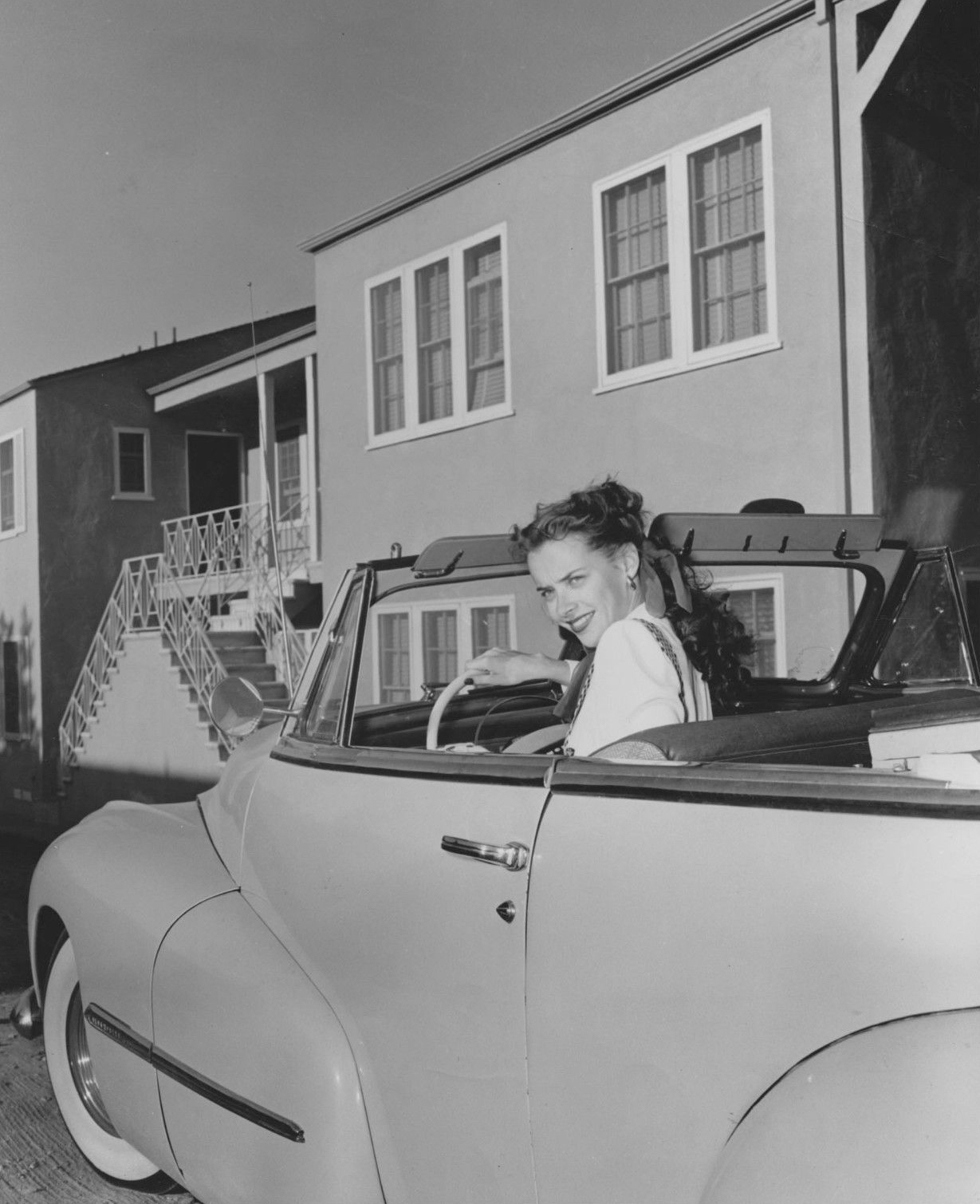 Susan Peters driving in October 1947; press statement reveals her car was refitted with a hand-gear accelerator and brakes to accommodate her in light of her paralysis.